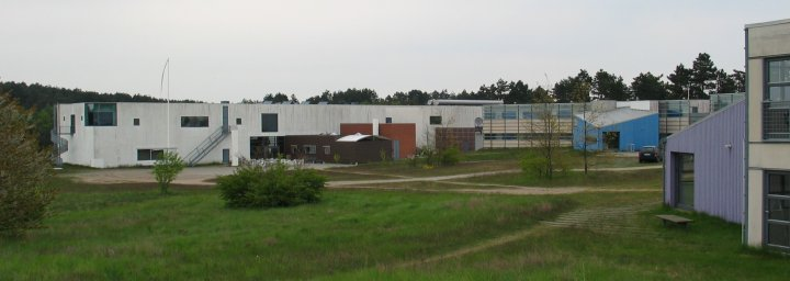 European Film College, Ebeltoft, Denmark